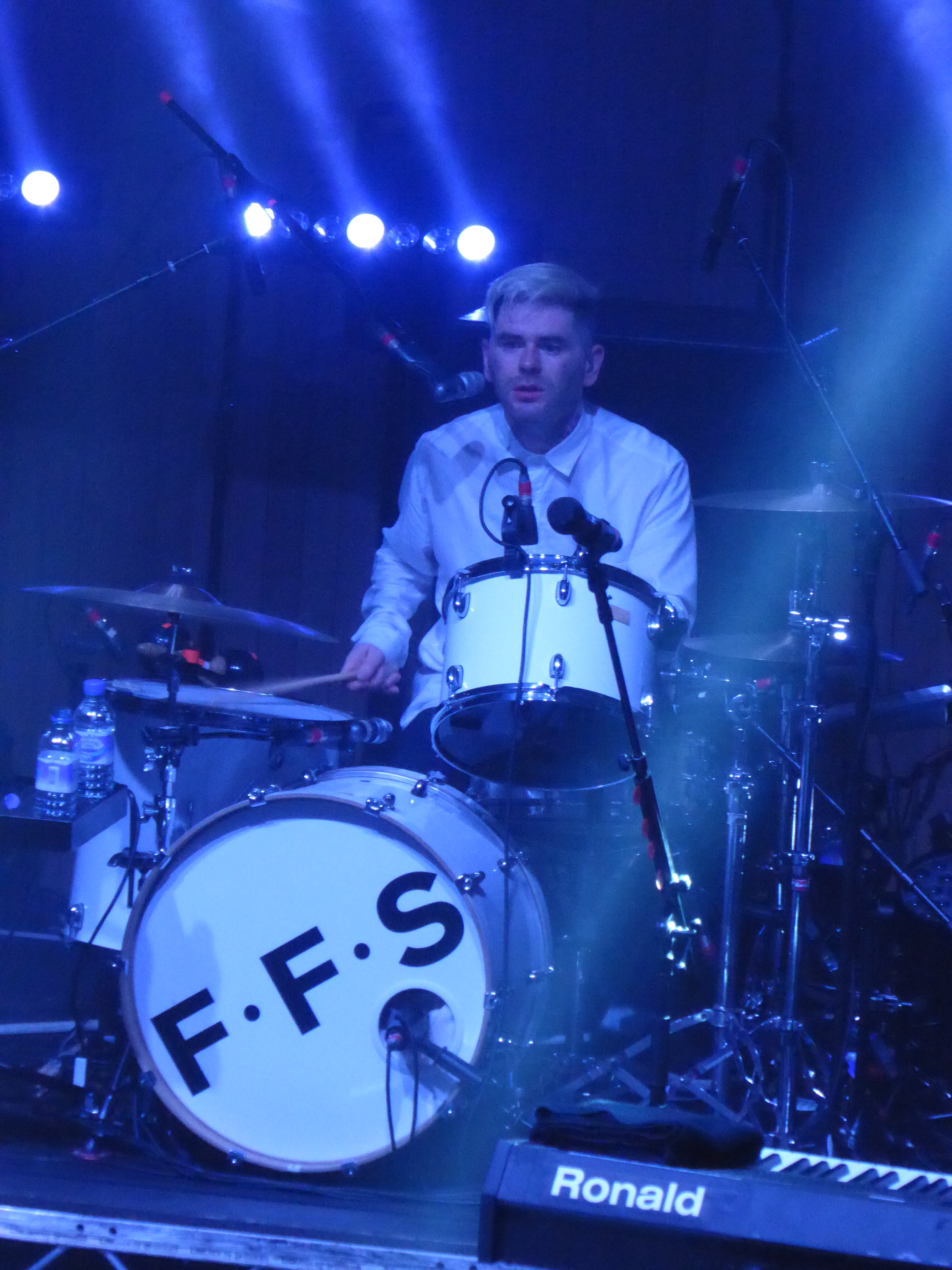 Paul Thomson of FFS (Franz Ferdinand & Sparks) @ Albert Hall, Manchester 25/8/2015